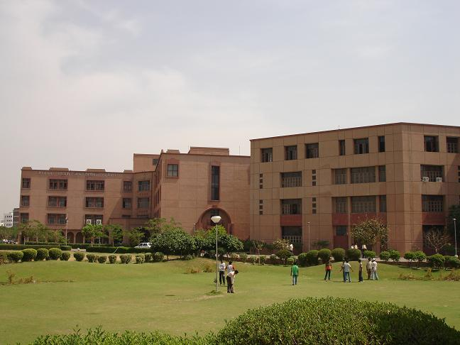 Panorama of the Academic Blocks from Old Canteen